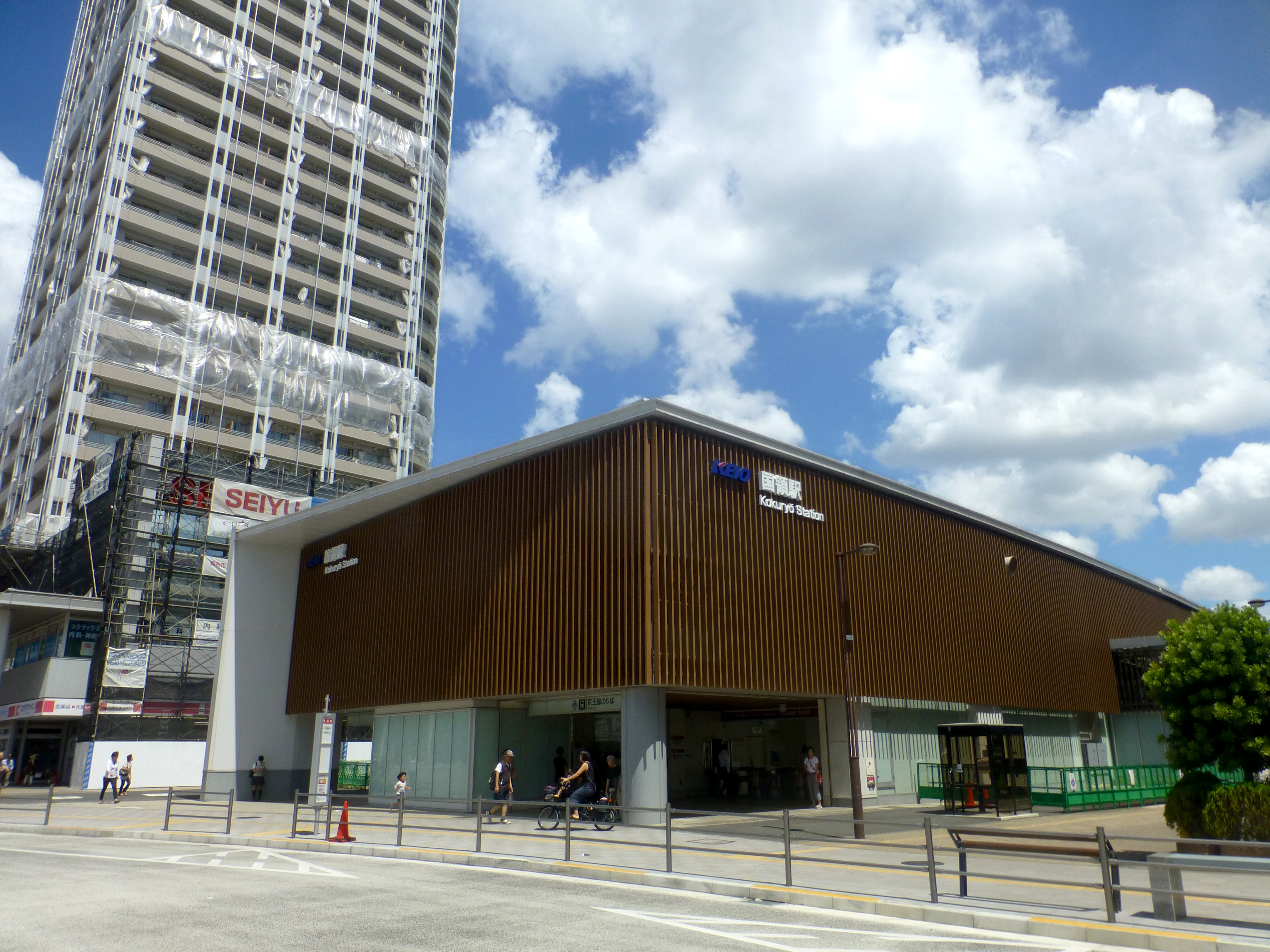 Kokuryo Station on the Keio Line in Chofu, Tokyo